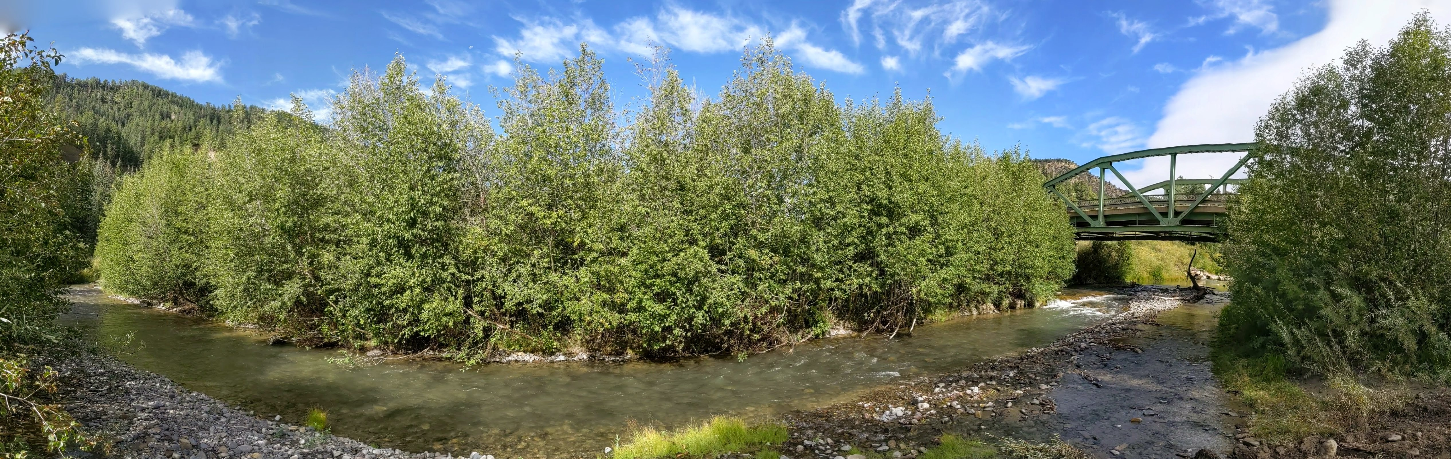 Rio Blanco at US Highway 84, Archuleta County, Colorado